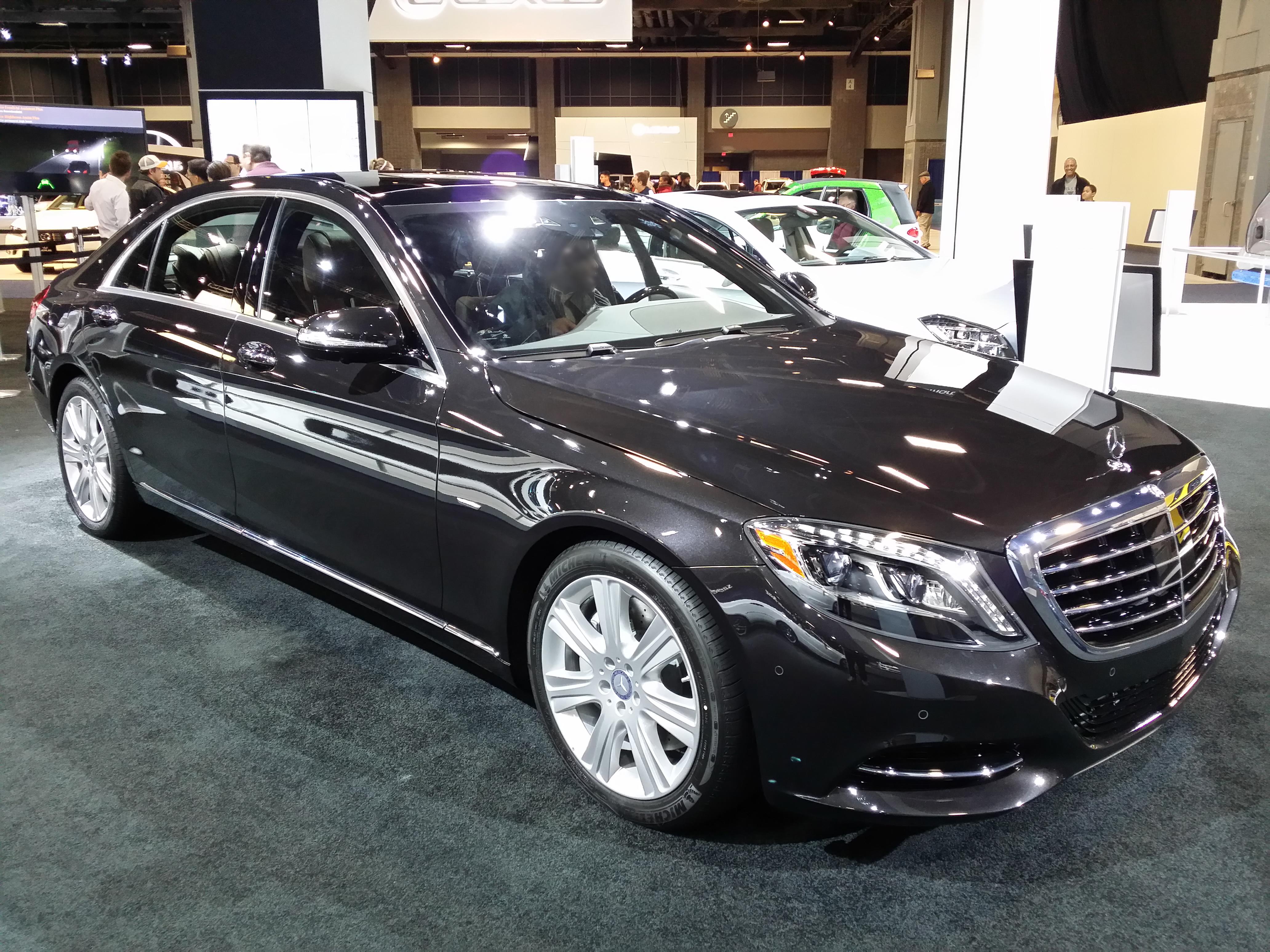 Exterior view of the U.S.-spec 2014 Mercedes-Benz S-Class, on display at the Washington Auto Show in Washington, DC.